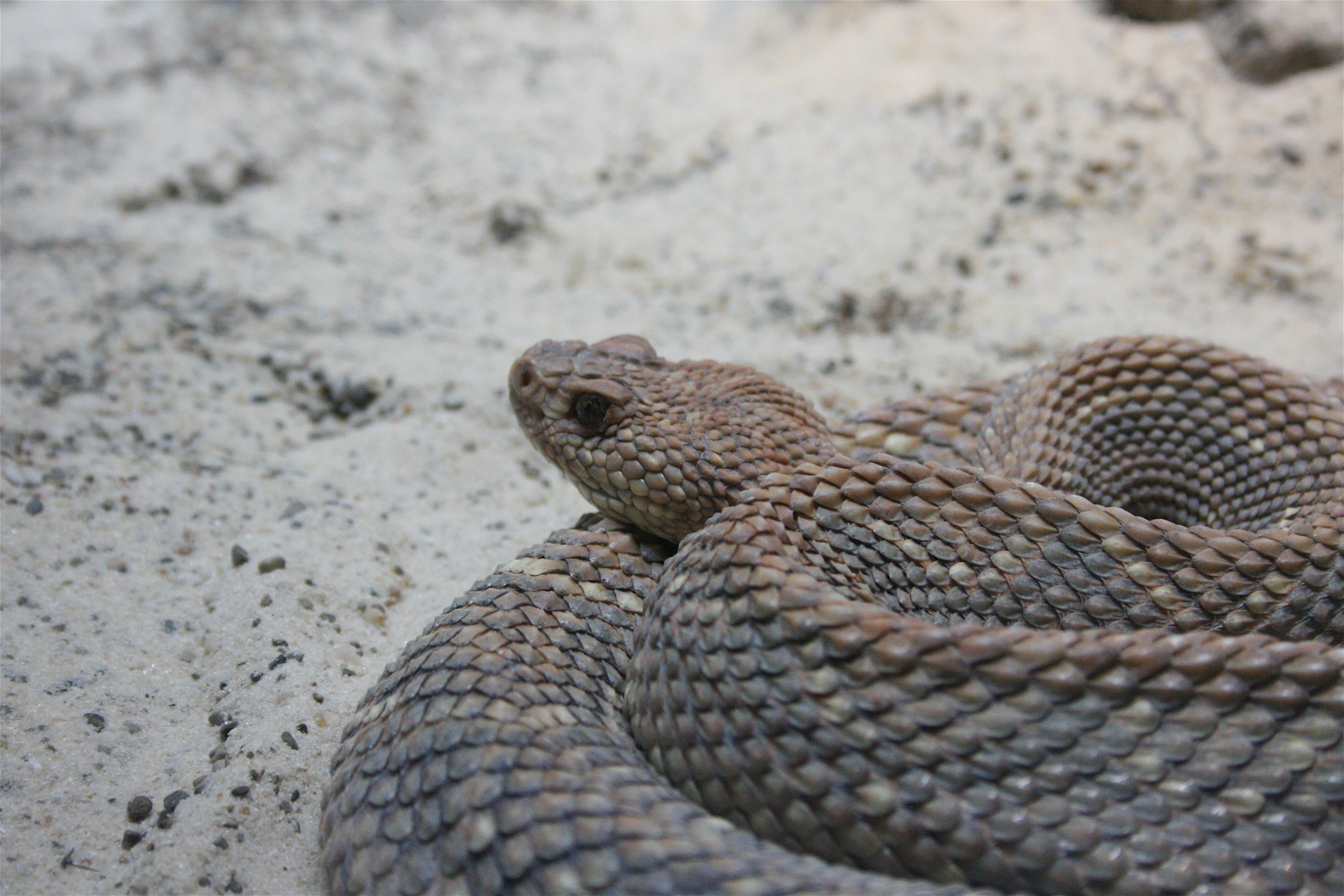 Aruba Rattlesnake (Crotalus durissus unicolor) at the Toledo Zoo, Toledo, OH.